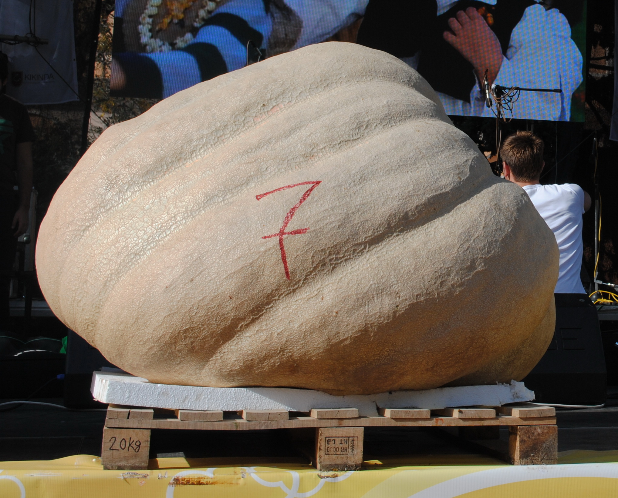 Pumpkin Days are held every October in Kikinda, Serbia. In 2014. the biggest pumpkin ever was measured. It weighted 507 kilograms.